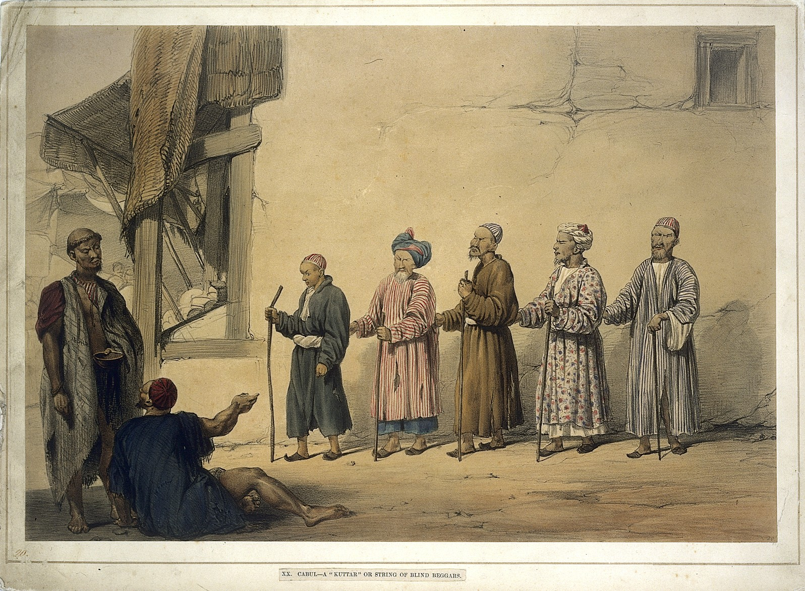 'XX. Cabul - A 'Kuttar' or string of blind beggars' Iconographic Collections Keywords: Public Health